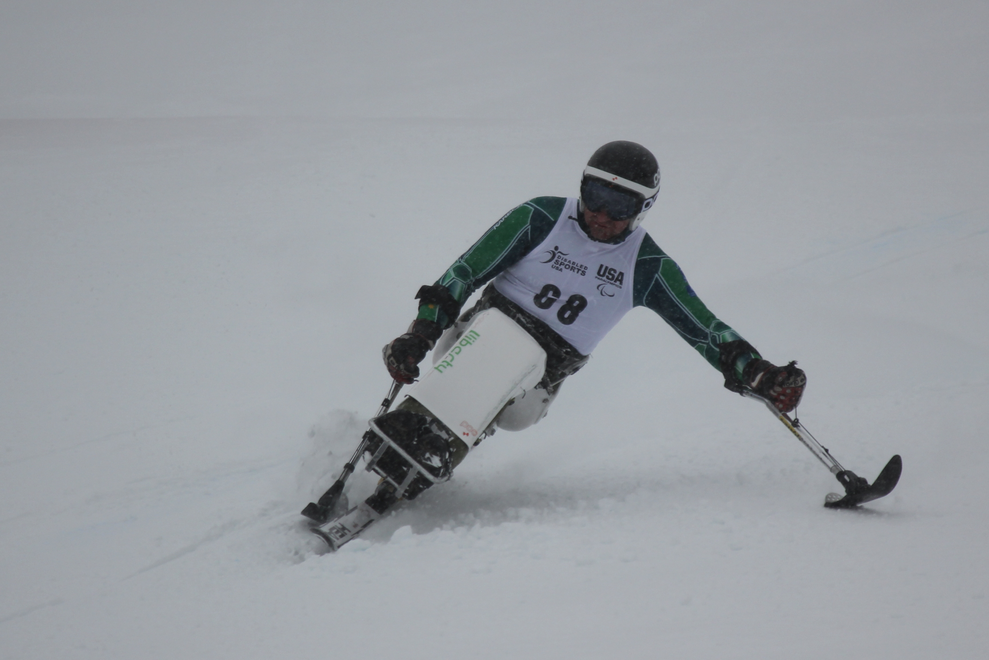 10 December 2012 Australian para-alpione skier at IPC Nor-Am Cup in the Super G.